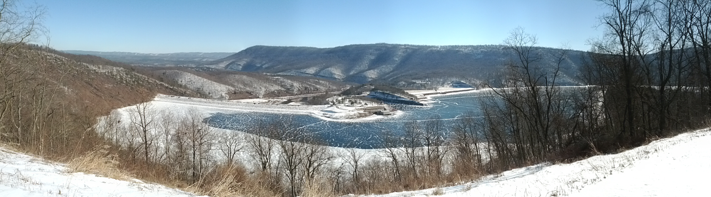 Most of the 8,300-acres of Raystown lake's surface are frozen due to the extremely cold temperatures. The lake is known to freeze completely about every five to ten years (U.S. Army Corps of Engineers photo Melissa Bean).